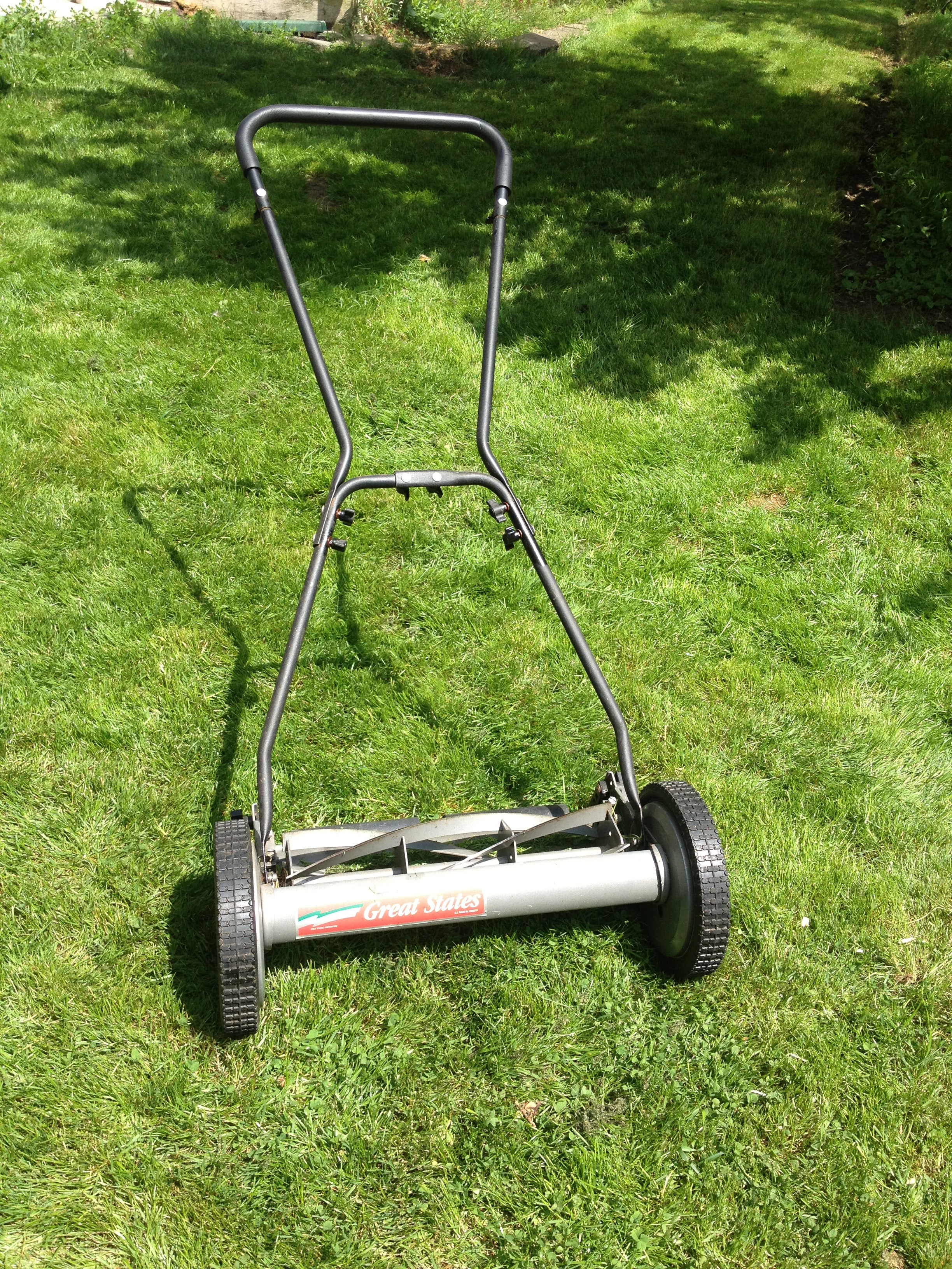 Great States nonmechanized push mower, recently sold